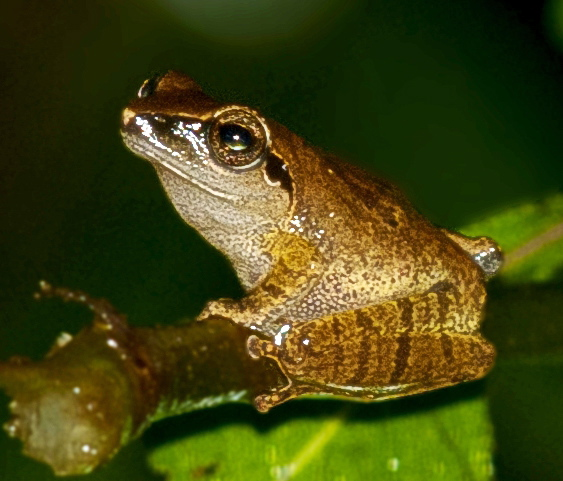 Pseudophilautus amboli, taken from Mhadei Wildlife Sanctuary, Goa, India